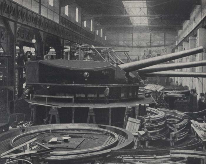 Assembly of the first gun turret for austro-hungarian battleship SMS Viribus Unitis at Skoda Works in Pilsen